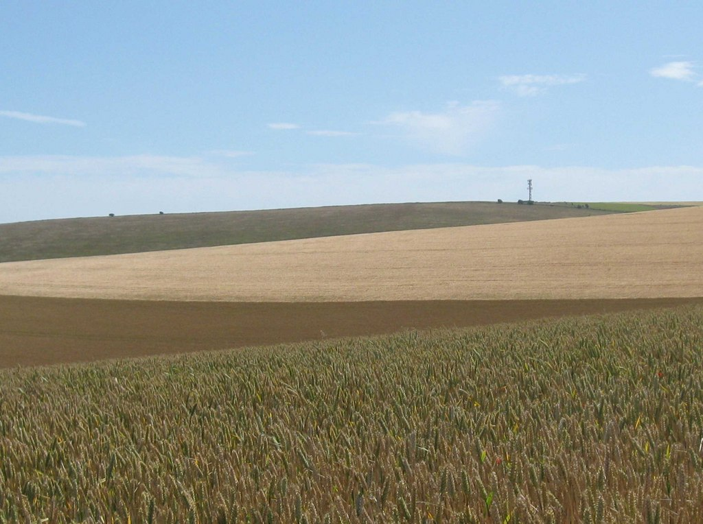 Cereal fields looking towards Newmarket Hill